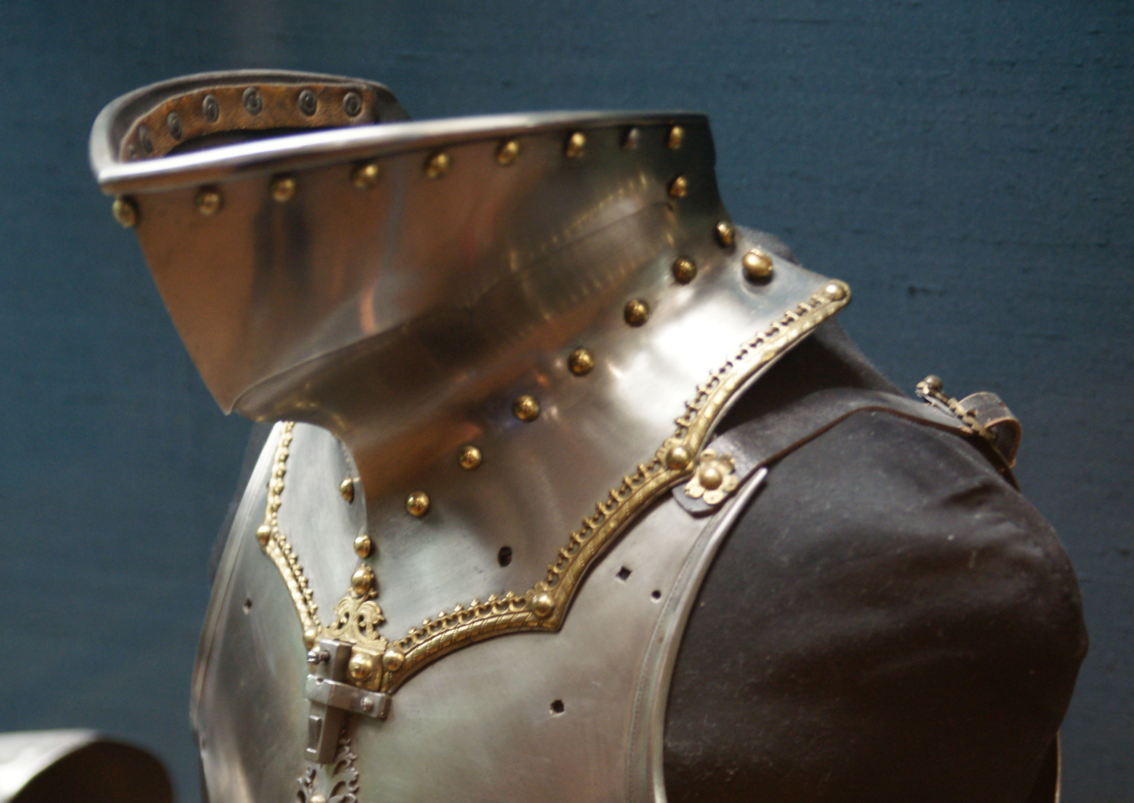 Armour of Emperor Maximilian I, part of the set of armour probably depicted in Thun fol. 33v, 67 and 67v.